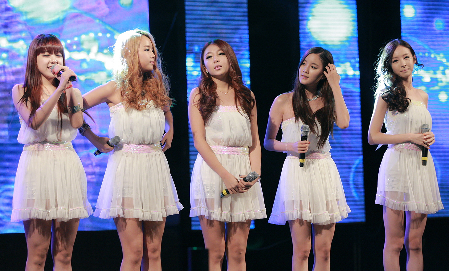 TAHITI at the '위하여 We Higher' festval, Gachon University, Seongnam, Gyeonggido, South Korea, in September 2013